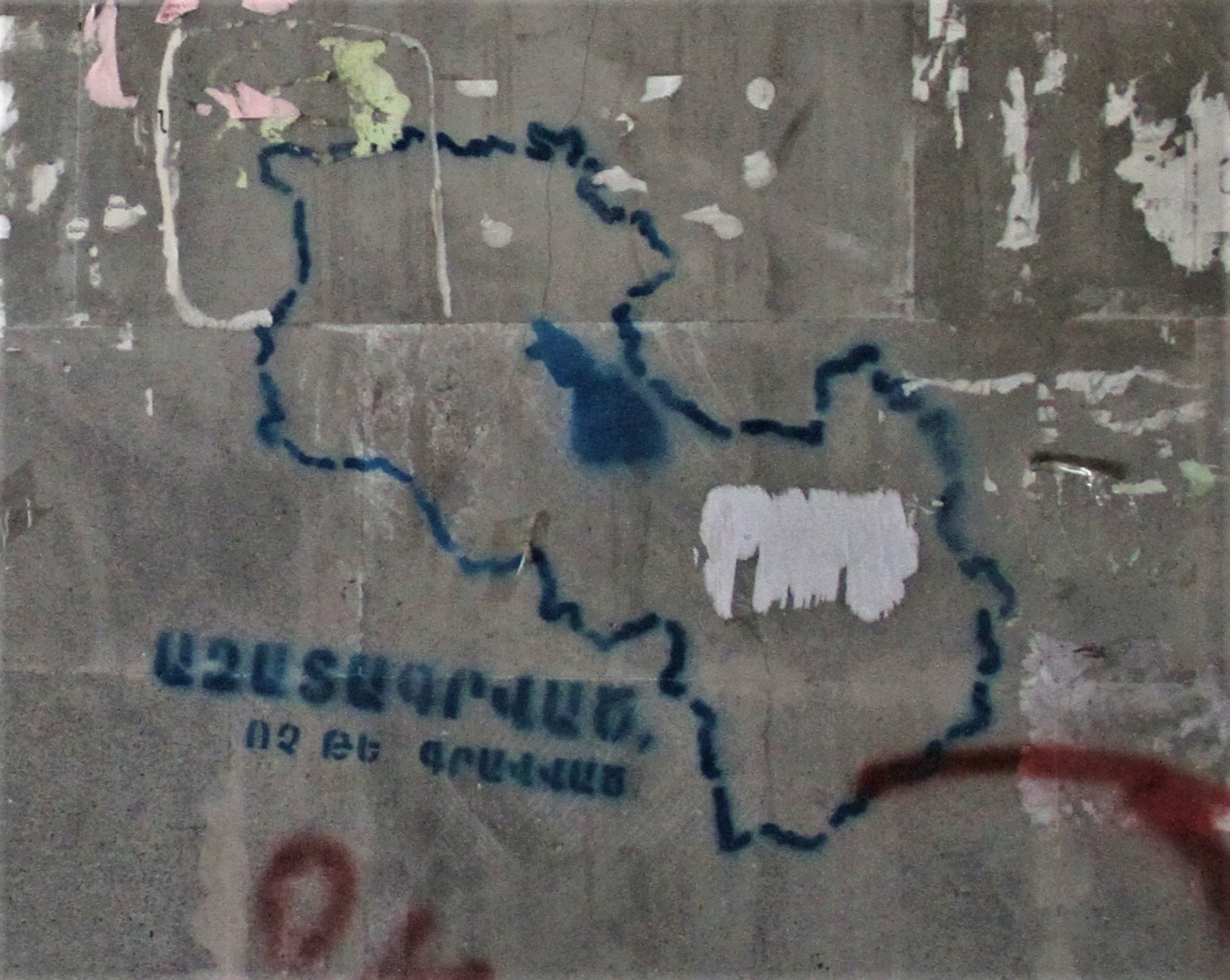 A graffiti in Yerevan depicting the outline map of Armenia and Artsakh. The text says "Liberated, not occupied"